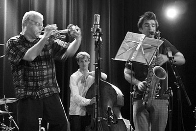 Herb Robertson